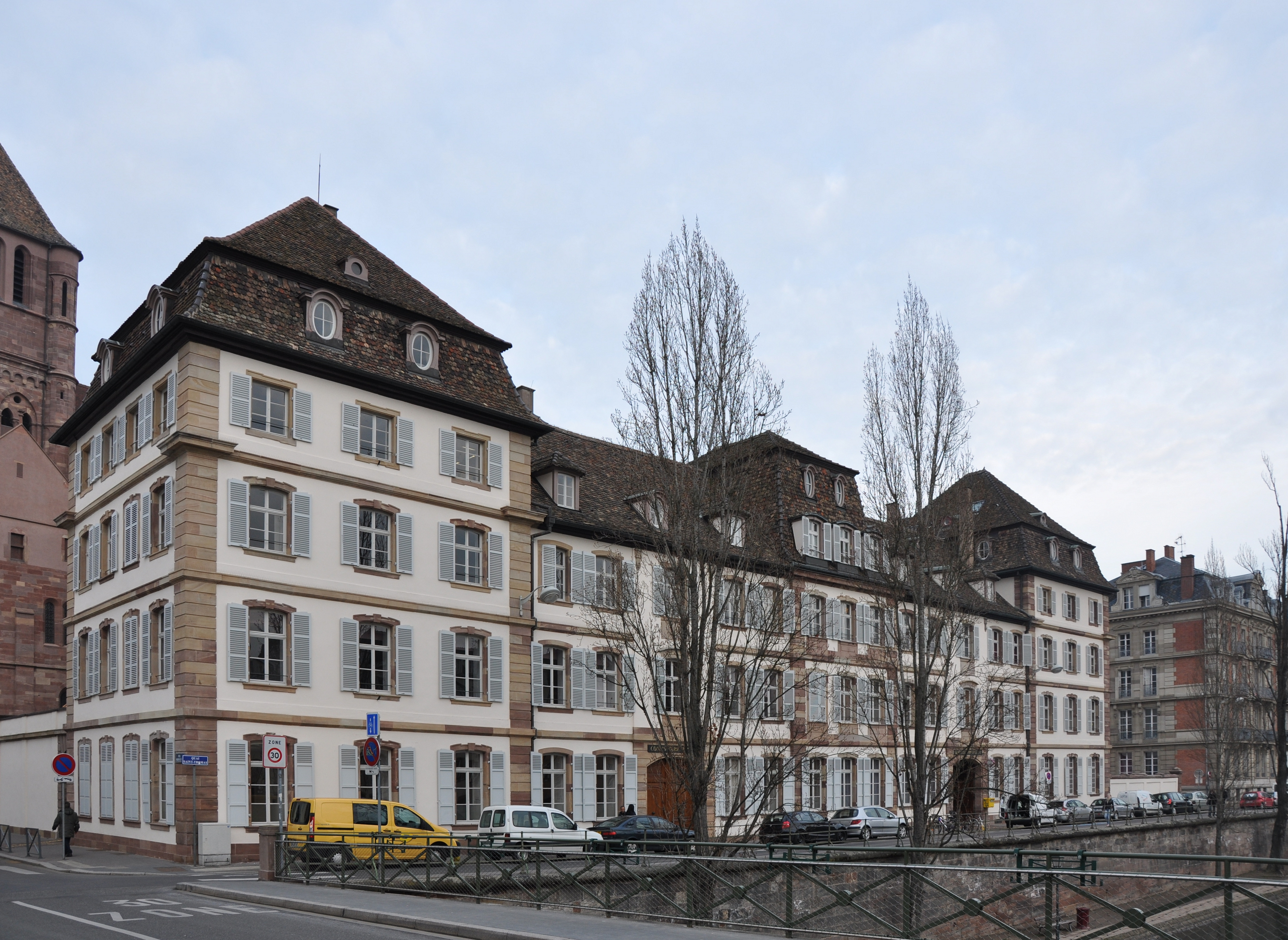 Quai Saint-Thomas